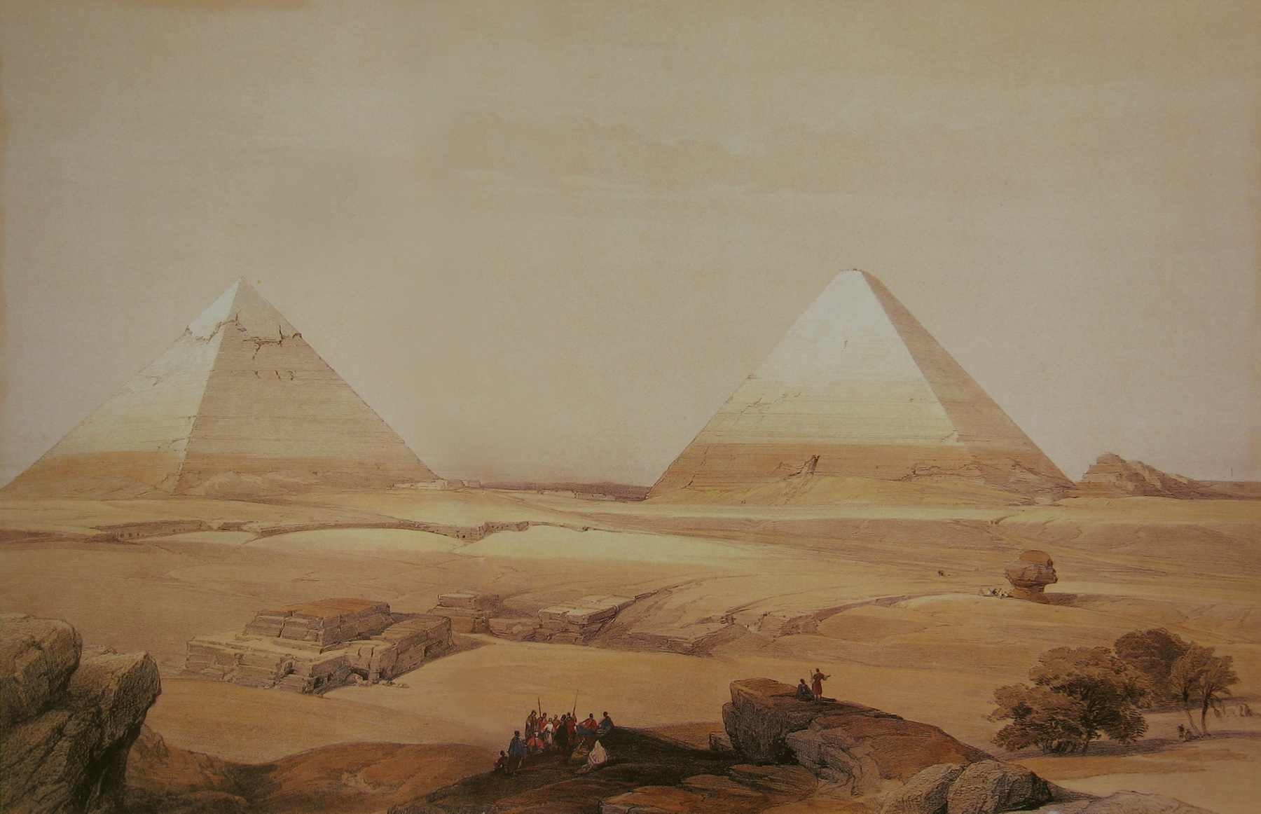 Pyramids of Geezeh